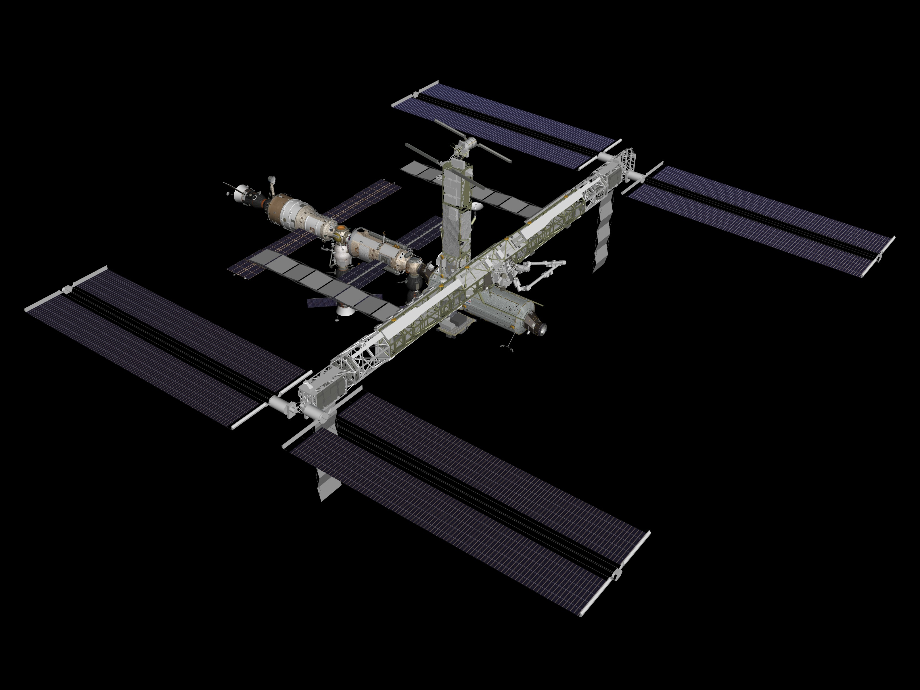 JSC2006-E-38951 (August 2006) --- Computer generated graphic of the International Space Station configuration after STS-117/13A with the addition of S3/S4 integrated truss segments.